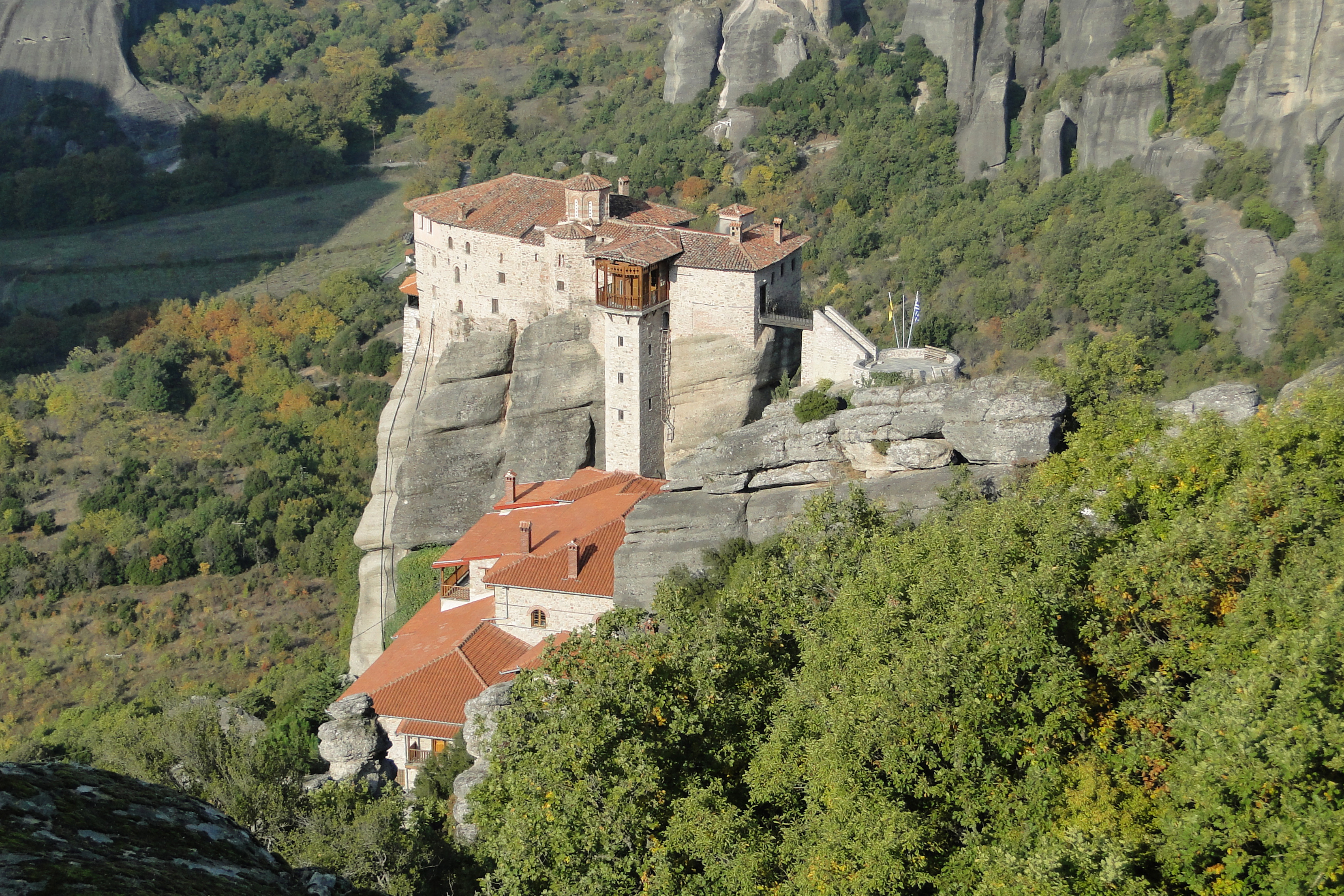 Roussanou Monastery, Meteora, Greece